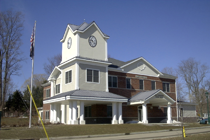 Patterson Town Hall, Patterson, N.Y,. —GNU Free Documentation License